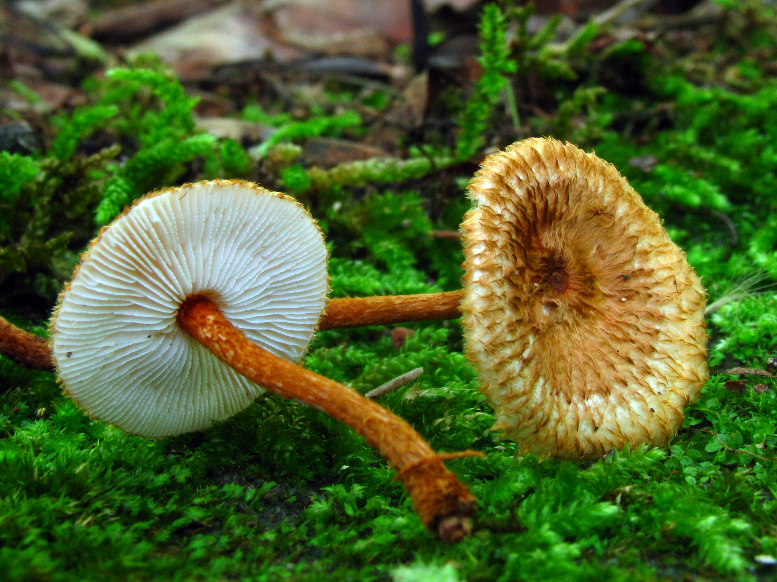 Crinipellis zonata (Peck) Sacc. Location: Strouds Run State Park, Athens, Ohio, USA Image Notes: Final edit of of this collection For more information about this, see the observation page at Mushroom Observer.